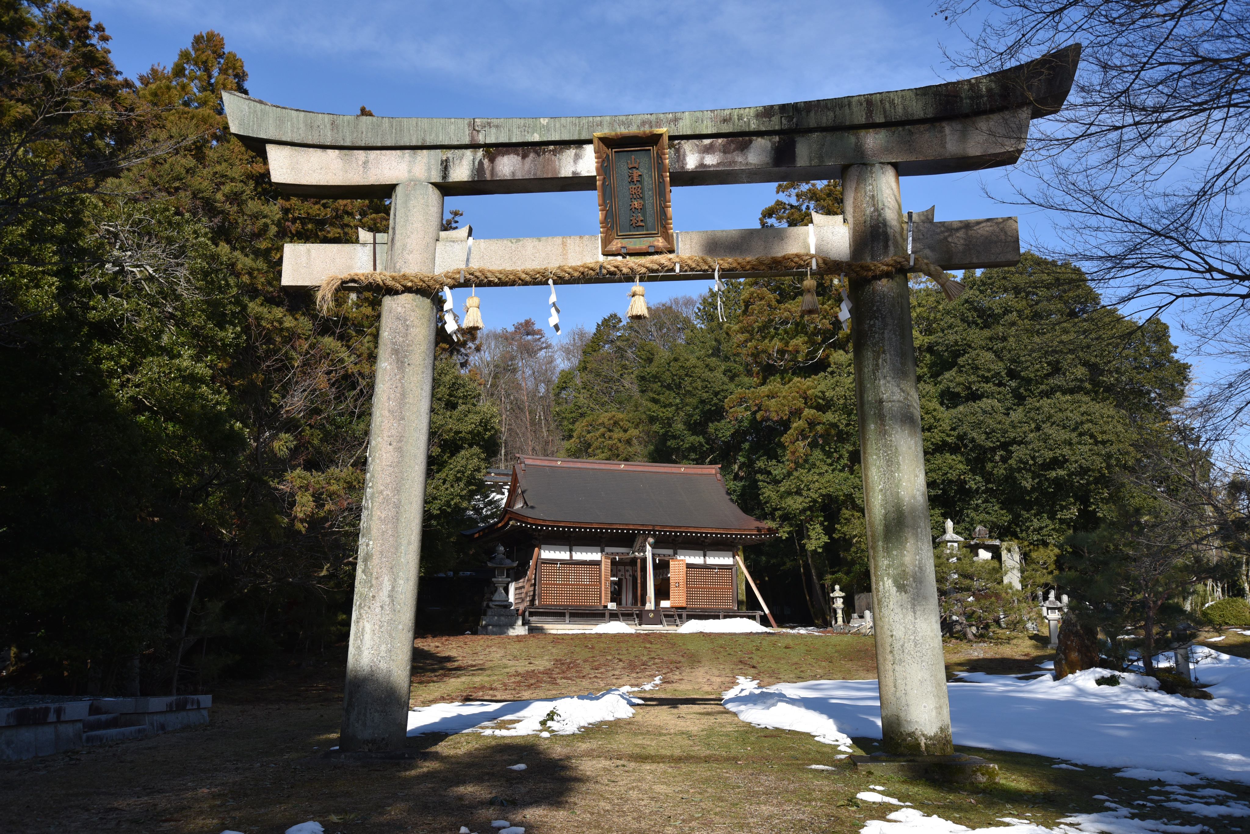 This picture is not art. Yamazu Shrine is the guardian of Okinaga.